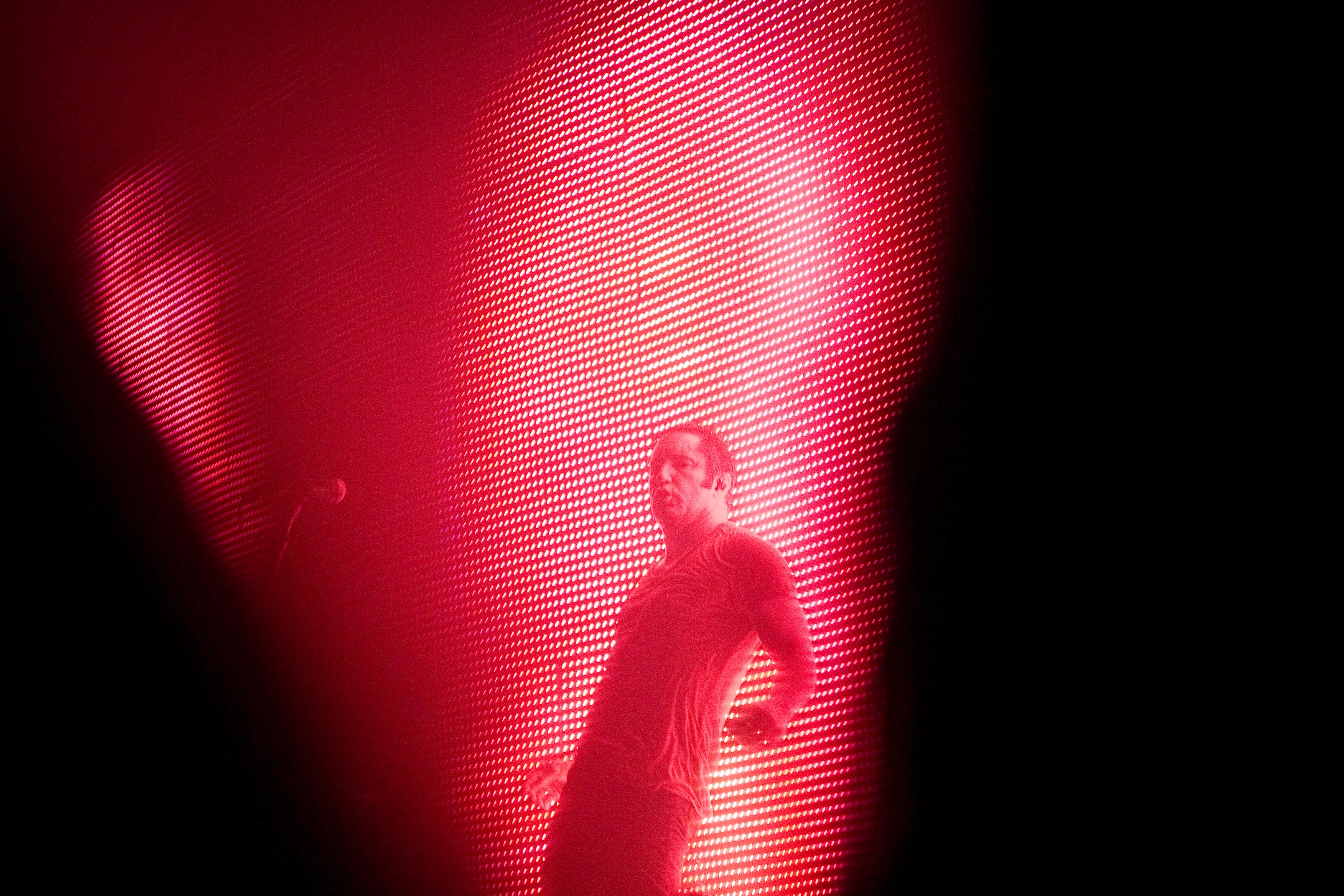 Trent Reznor, Nine Inch Nails, Victoria, BC. LITS Tour (image shot by Fiona Bowie (gebgdc)